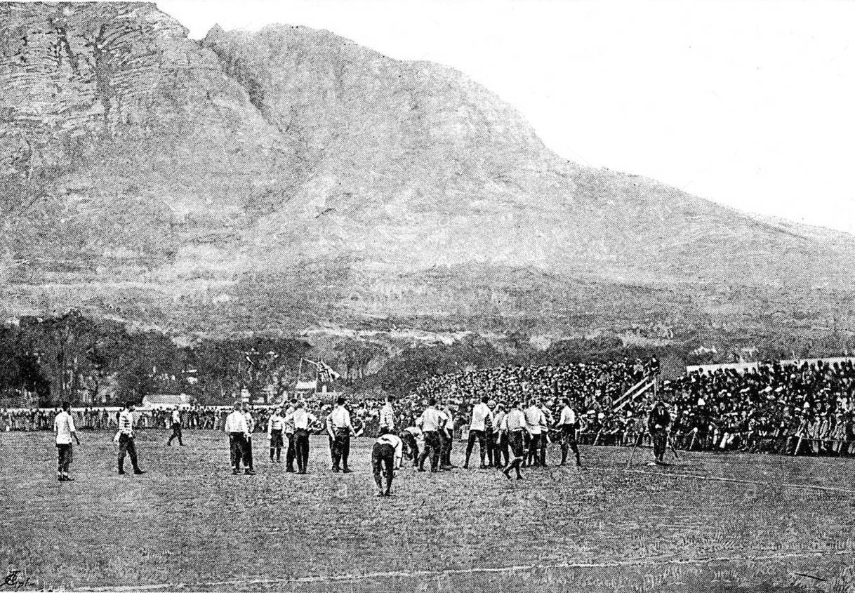 England v Cape Colony, the first match of the Bill MacLagan undefeated British Isles tour of South Africa.